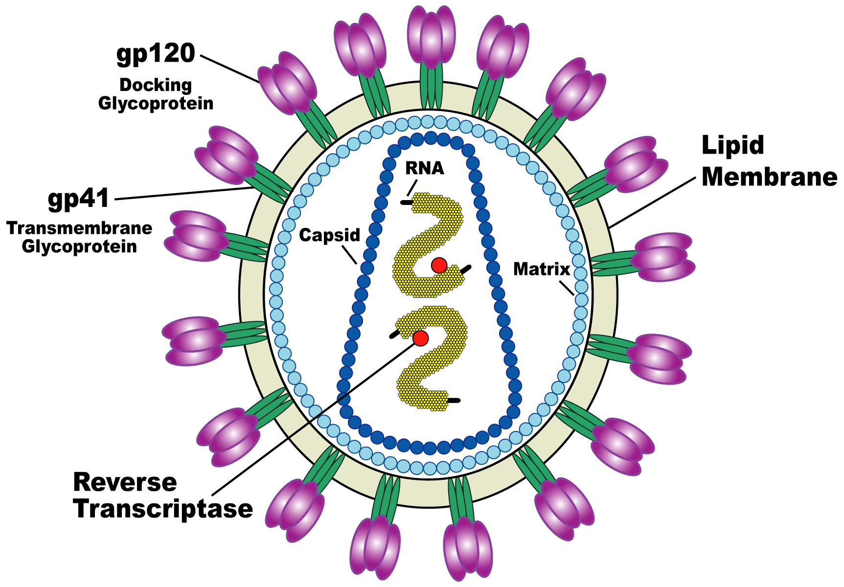 Diagram of the HIV virus.